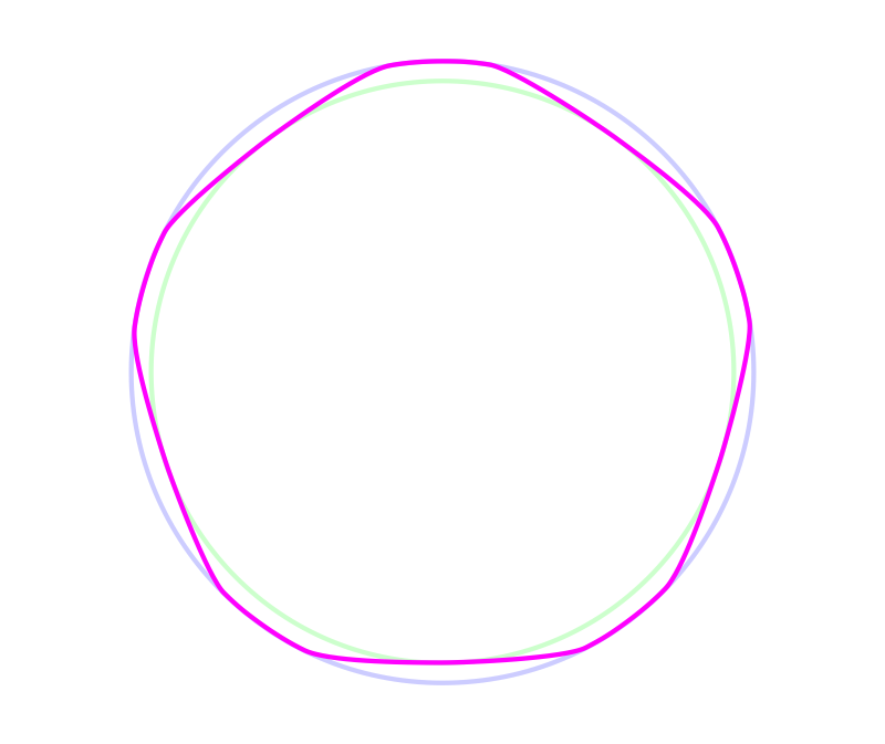 Pentalobular screwthread axial view